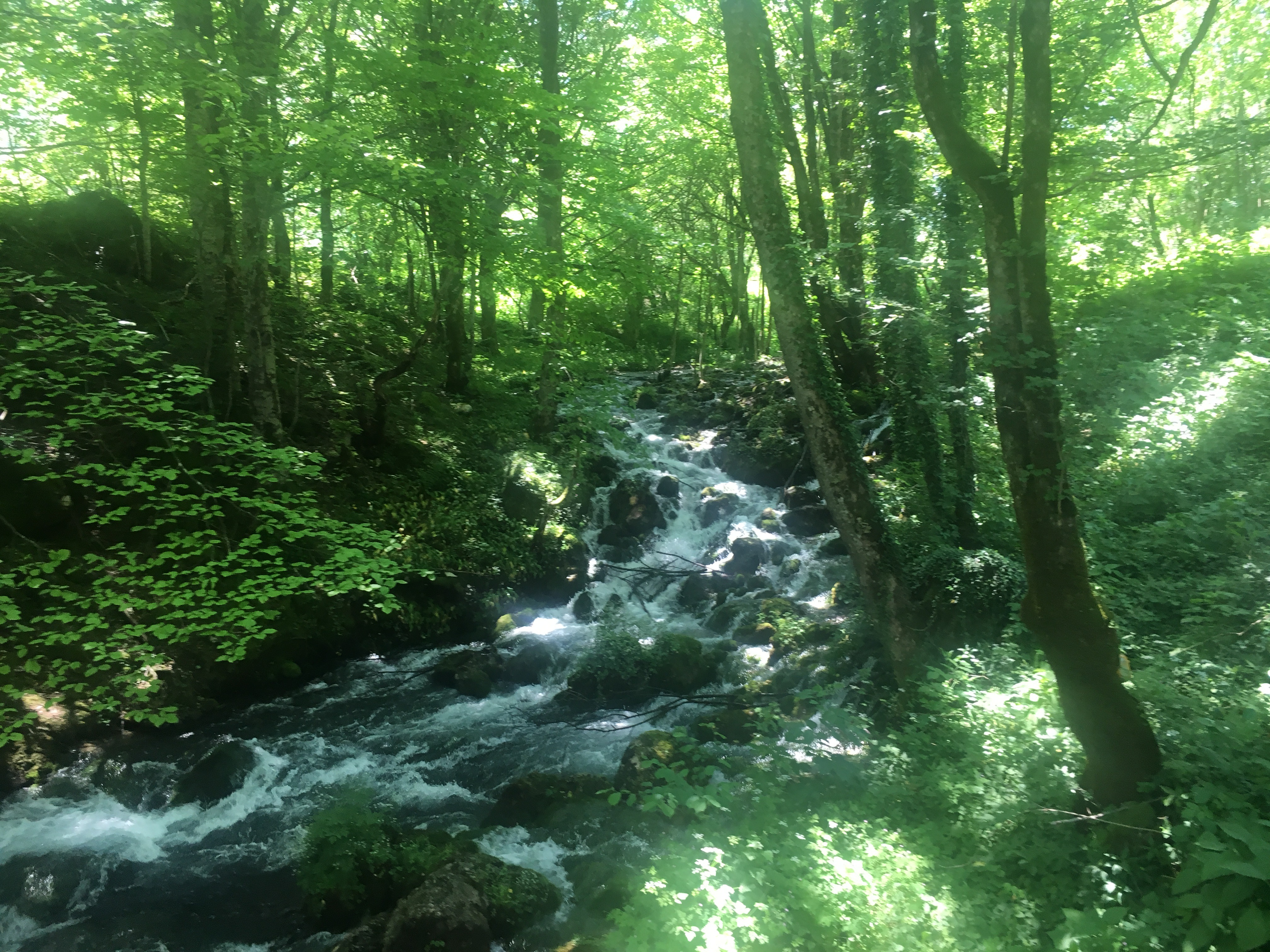 Small mountain stream Bistrica, tributary of Tara river (Montenegro). flows from Siniajevina mountains